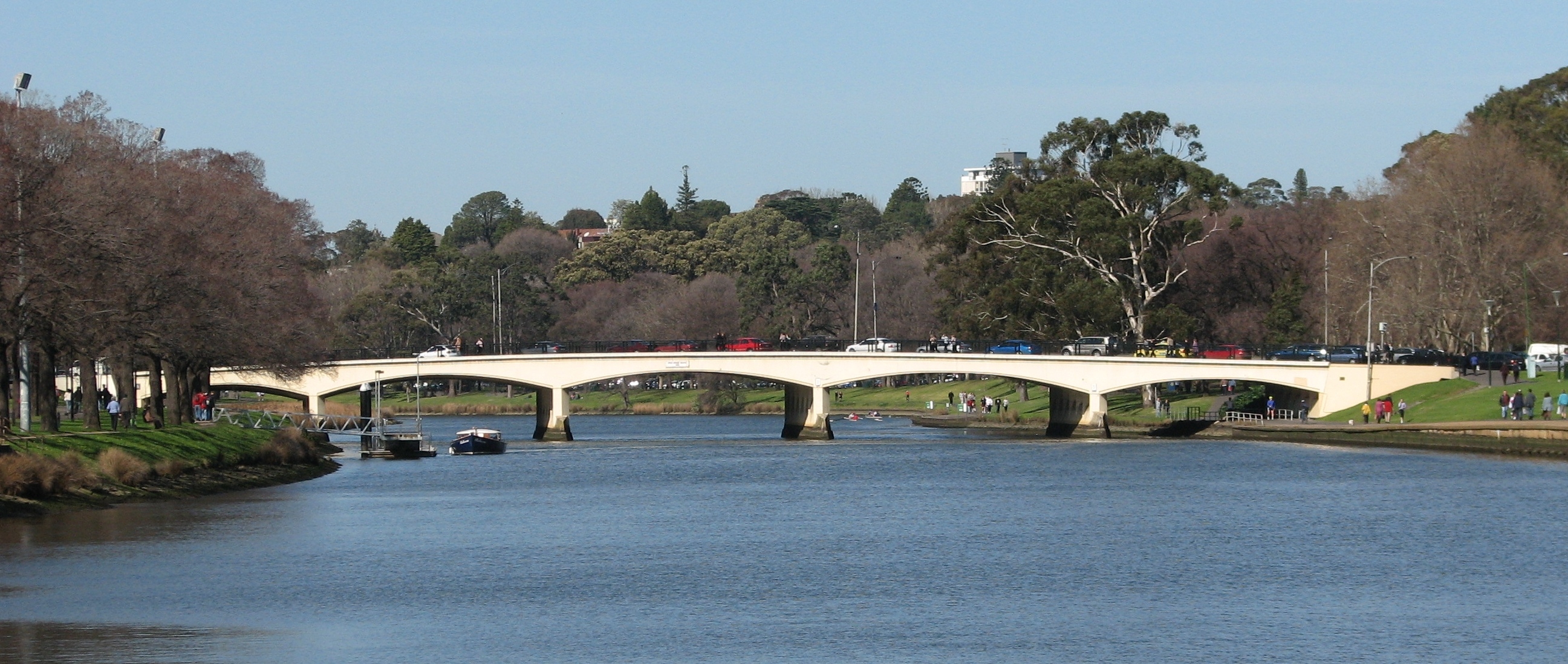 Swan Street Bridge over Yarra River, Melbourne, Australia.